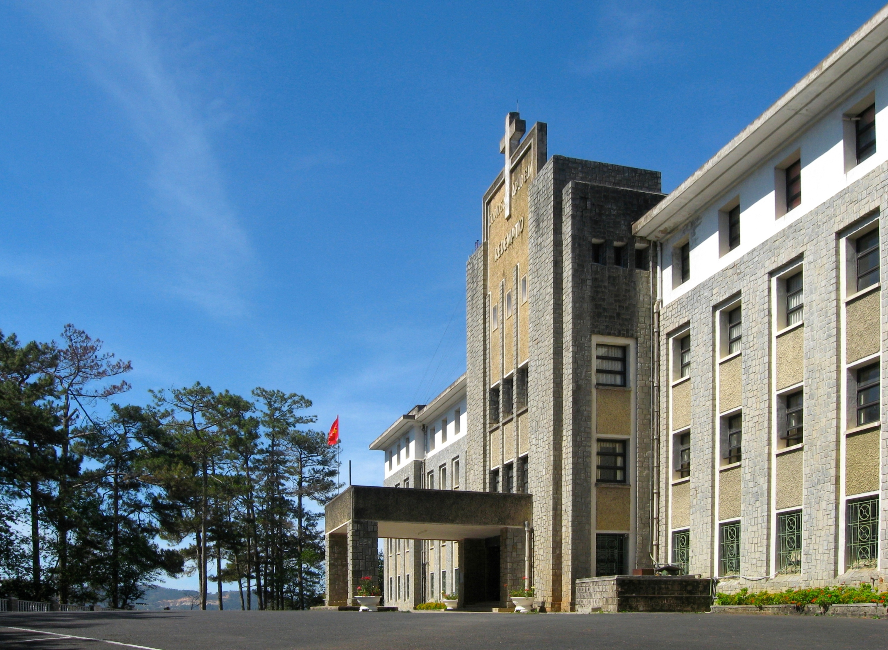 Tay Nguyen Institute of Biology